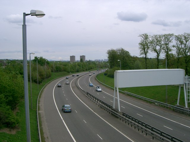 Motorway. M77 at Corkerhill.